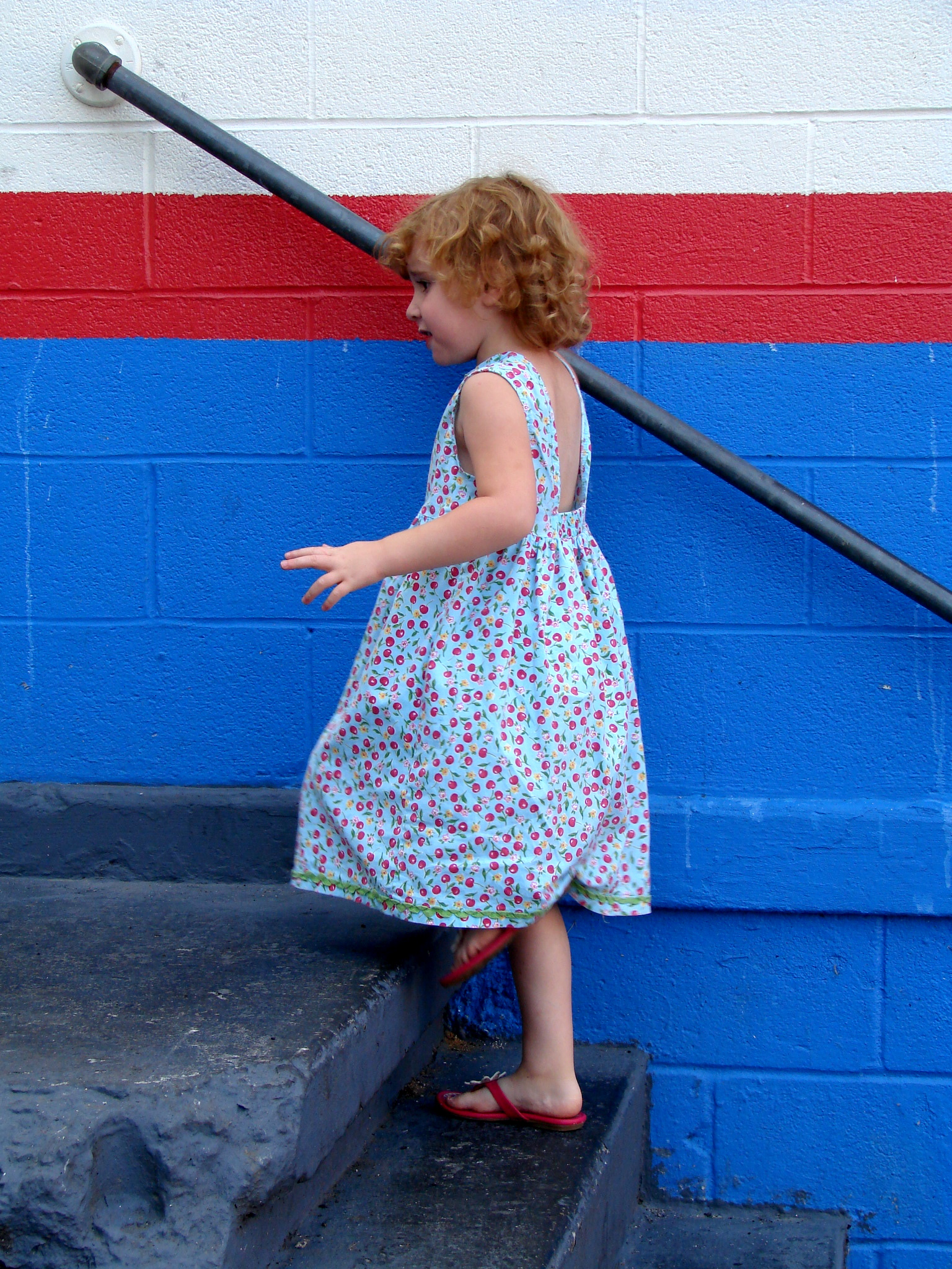 Stairs